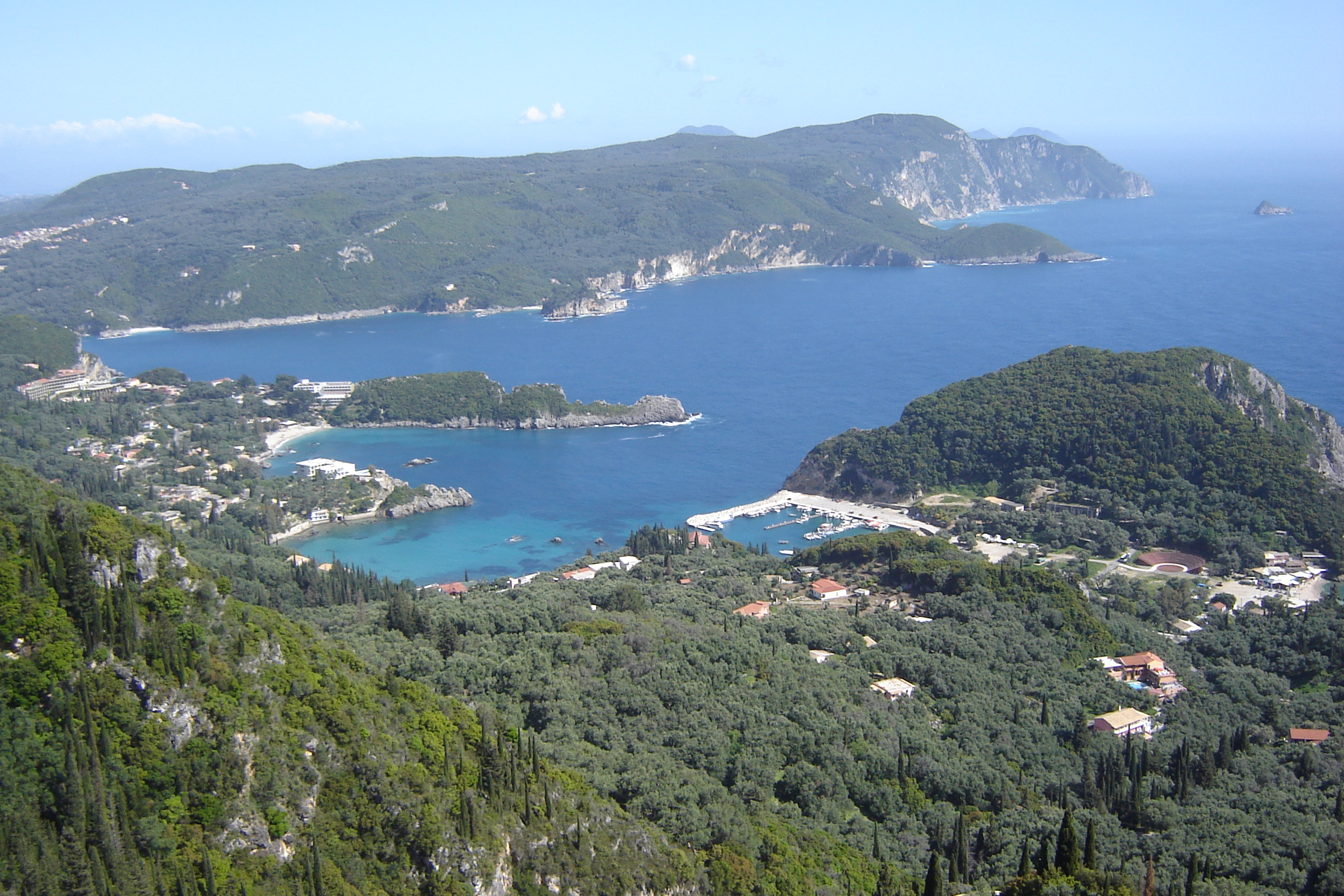 Palaiokastritsa coast, Corfu, Greece